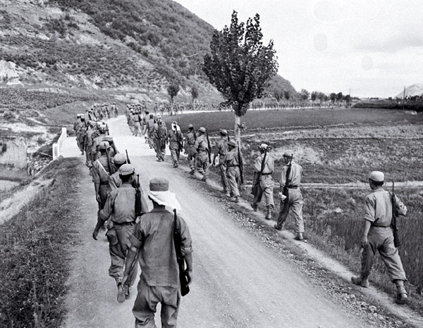 Republic of Korea (ROK) soldiers march in typical column formation toward the front in August, 1950, during the Pusan Perimeter battle. This is a standard narrow dirt Korean road raised above rice paddies. (U.S. Army photo.)